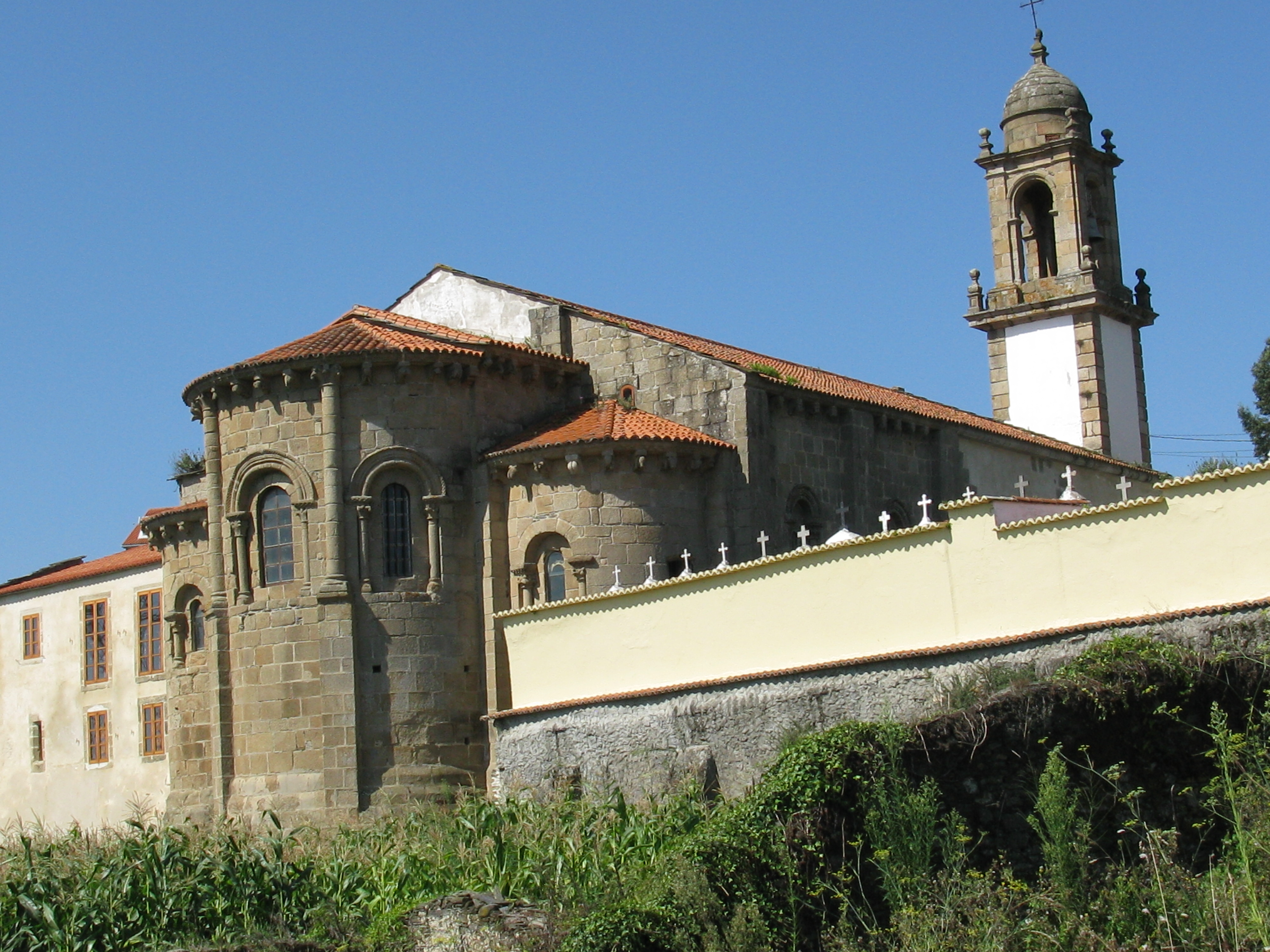 Monastery of San Martiño de Xuvia nearby Coruña, Spain. Also known as Mosteiro do Couto. General view of the church and cemetery.